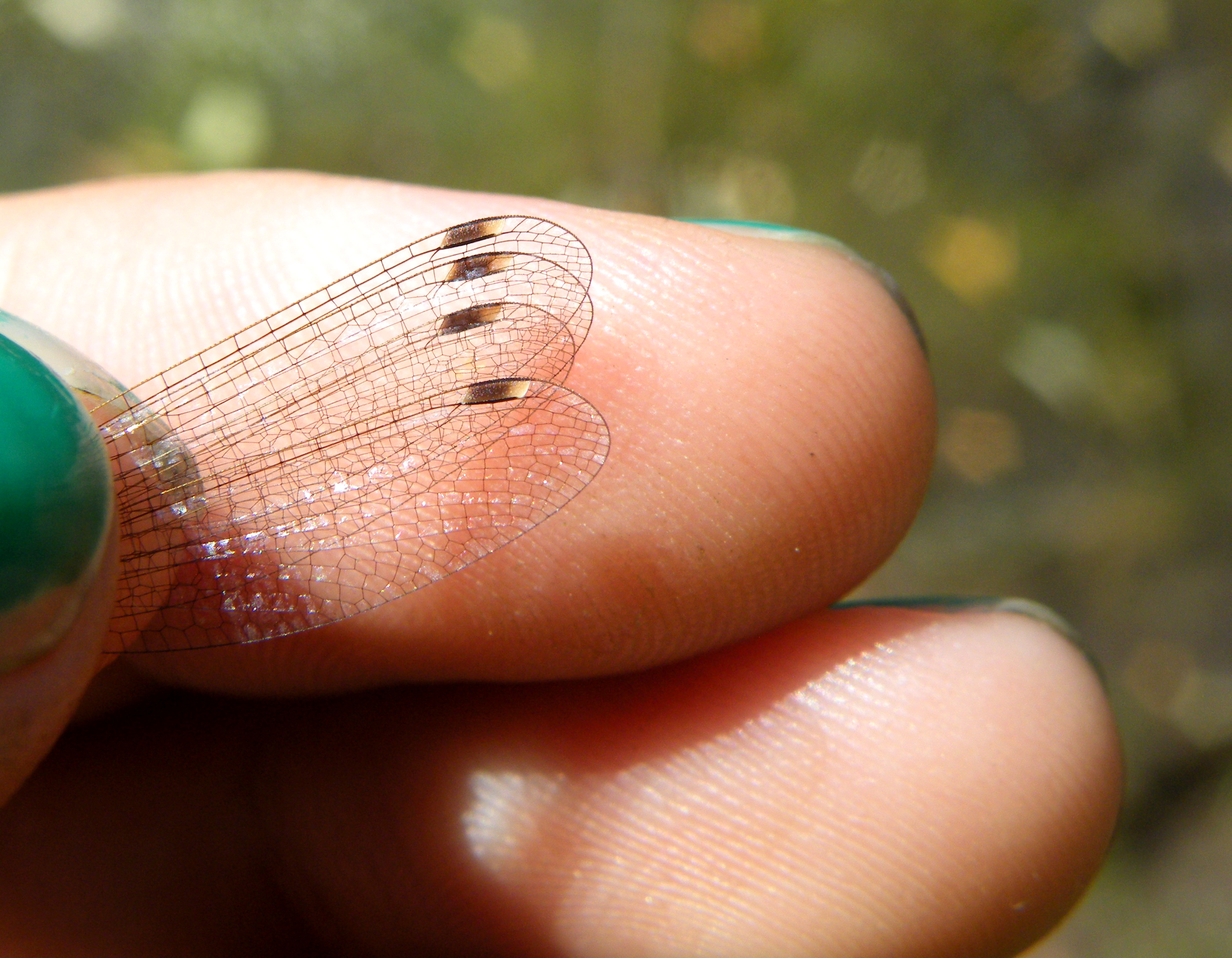 Pterostigma je dvobojna kod ove vrste.